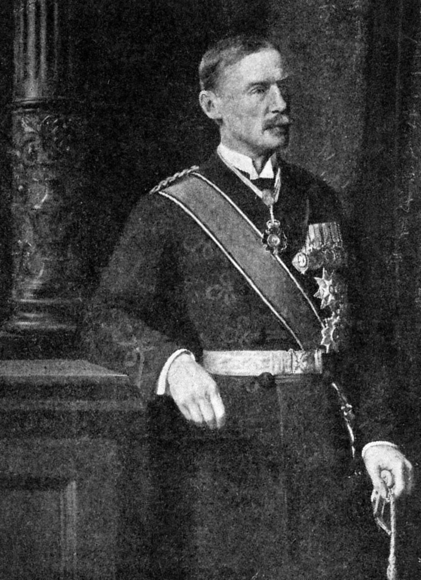 Portrait painting of Sir Henry McMahon (1862–1949).